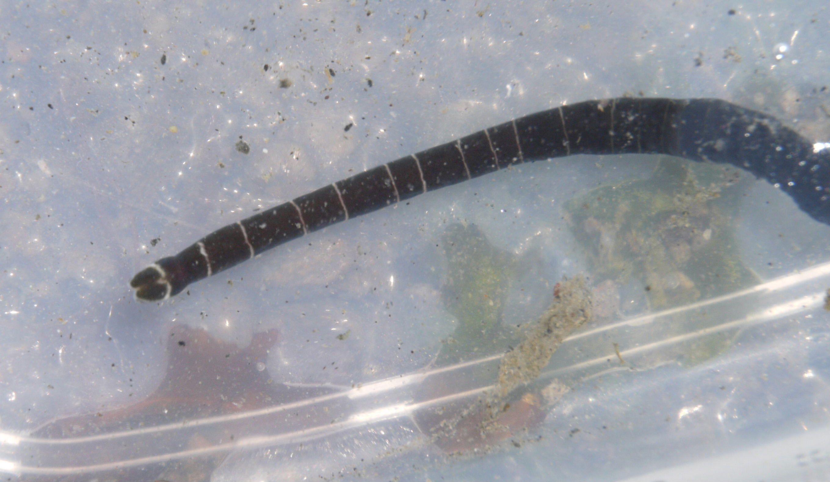 Ribbon worms Lineus geniculatus (Heteronemertea:Lineidae). Tanabe city, Wakayama prefecture, Japan.